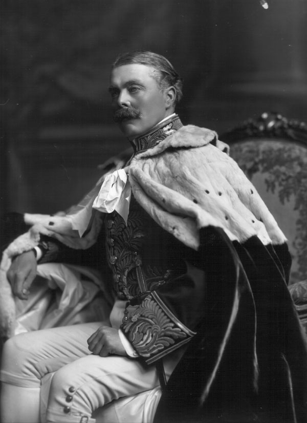 Herbert Colstoun Gardner, 1st (& last) Baron Burghclere (1846-1921), photographed 8 August 1902.